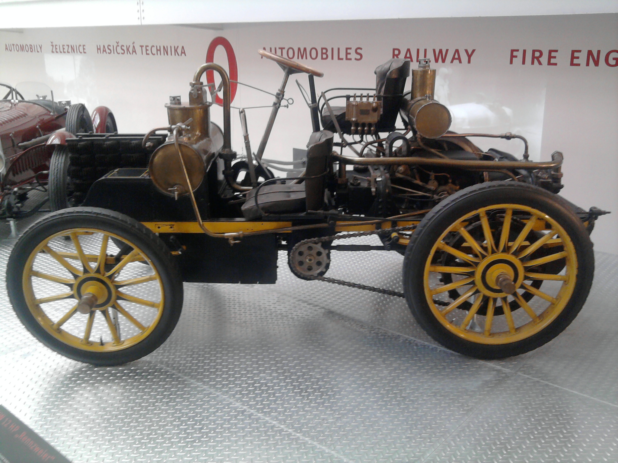 NW Rennzweier - veteran racing car manufactured by Nesselsdorfer Wagenbau-Fabriks-Gesellschaft A.G. (today Tatra, a.s.) in 1900 in Kopřivnice, Moravia.